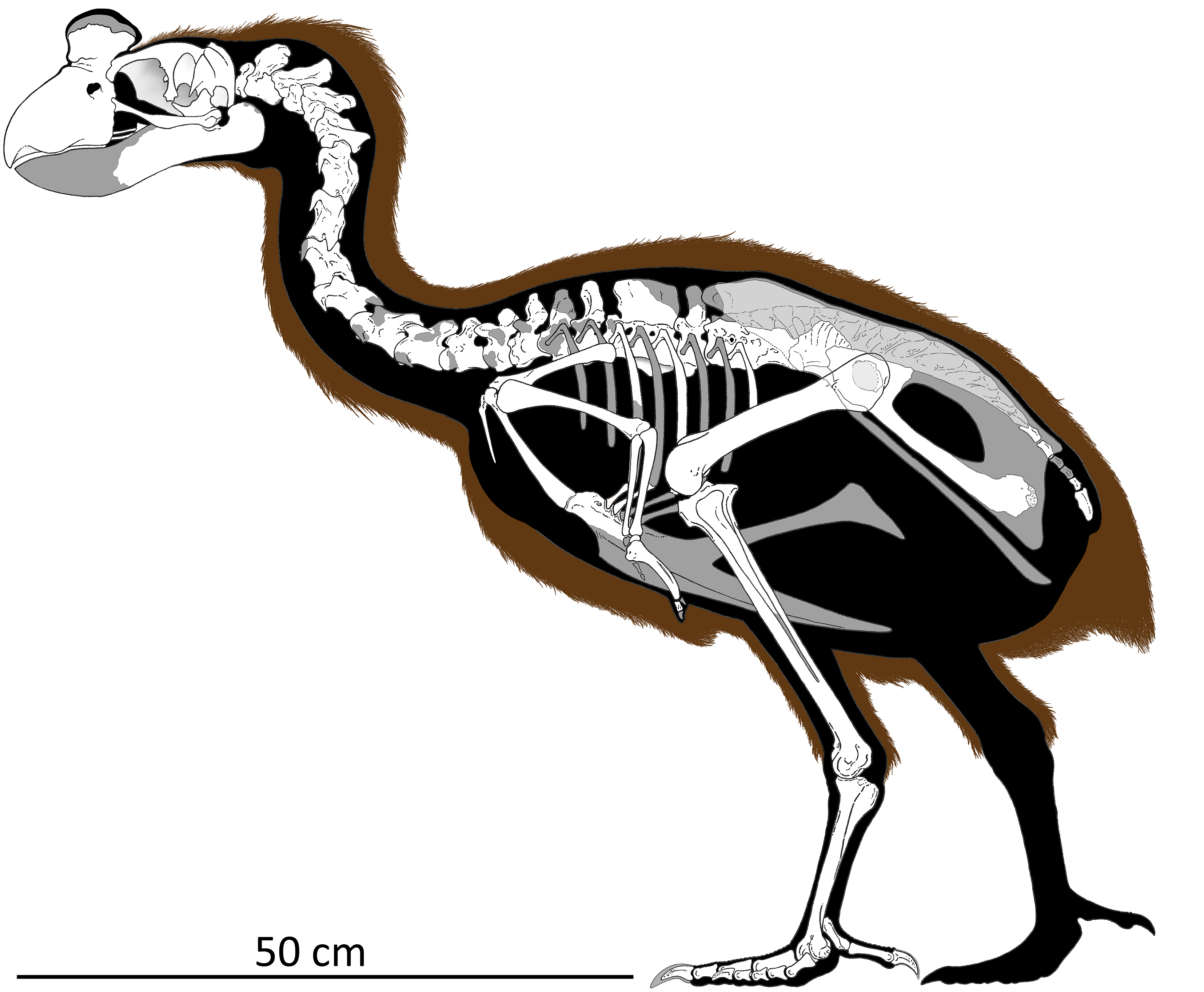 A skeletal reconstruction for Sylviornis neocaledoniae in a resting pose. The missing skeletal parts are estimated (shaded bones), with the pelvis based on proportions of Leipoa ocellata. The bill rhamphotheca is not reconstructed so as to not obscure the underlying skeletal morphology.